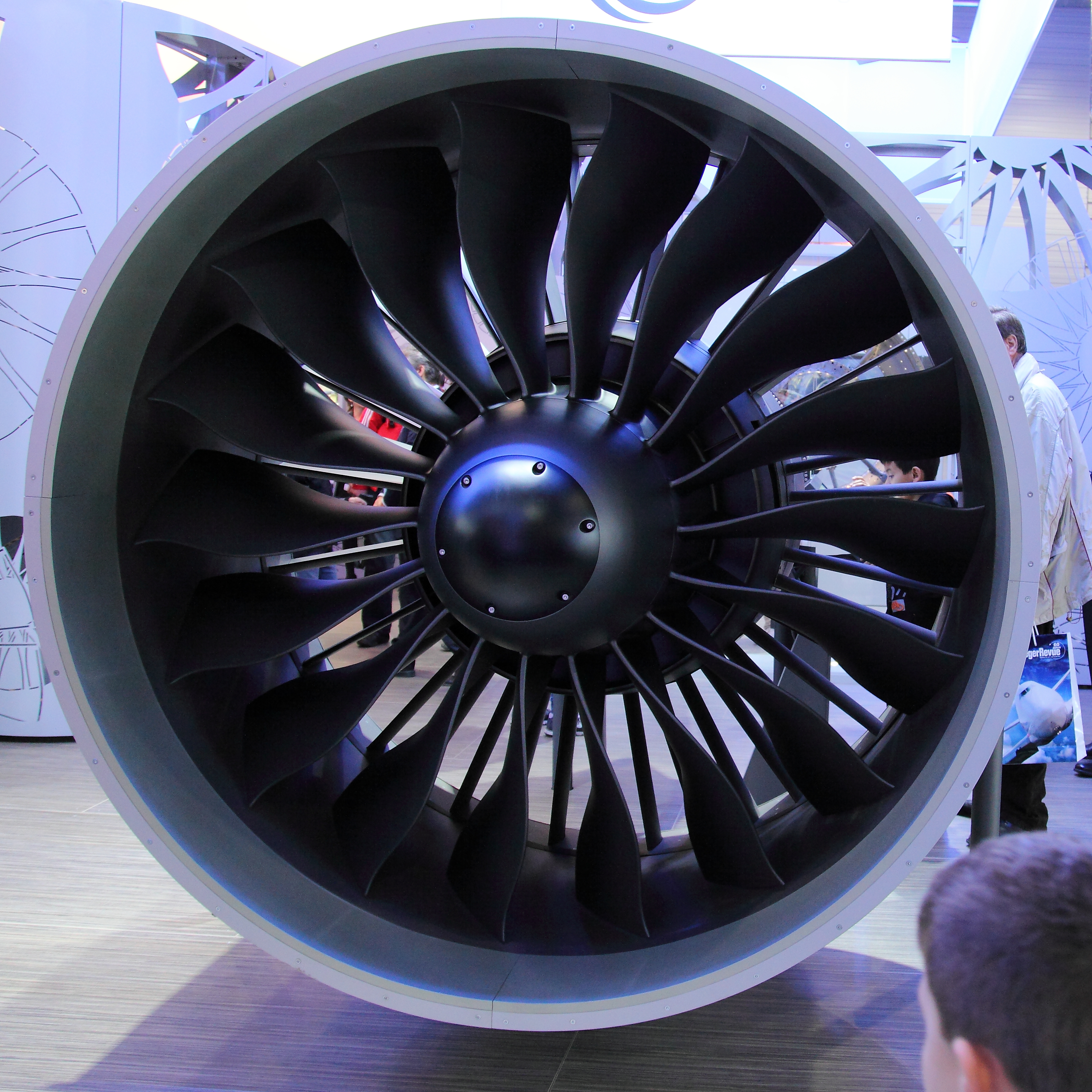 ILA Berlin Air Show 2012; Geared Turbo Fan: The Technology of the PurePower; PW1000G Engine